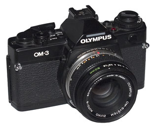 Olympus OM-3 manual focus 35 mm film SLR camera, 1983–1986.